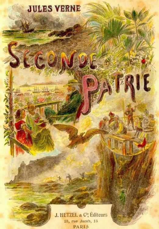 An illustration from Jules Verne's novel "The Castaways of the Flag" (or "Second Fatherland"; 1900) drawn by George Roux.